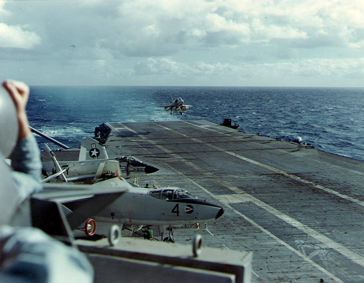 A U.S. Navy Douglas A-4C Skyhawk of Attack Squadron 55 (VA-55) "Warhorses" landing on the aircraft carrier USS Ticonderoga (CVA-14), after a simulated strike on "enemy" forces during an operational readiness inspection, 18 January 1963. A Douglas A-3B "Skywarrior" of Heavy Attack Squadron 4 (VAH-4) Det.B "Fourrunners" and a McDonnell F-3B "Demon" of Fighter Squadron 54 (VF-54) "Silver Kings" are parked on the carrier's after flight deck, and another A-3 is in the upper left distance, making its landing approach. All aircraft were assigned to Carrier Air Group 5 (CVG-5).